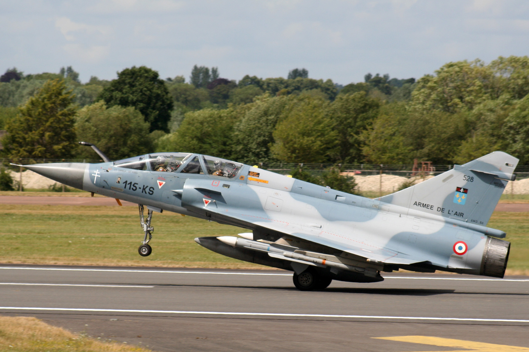 Dassault Mirage 2000B France Air Force 528 / 115-KS C/N 416